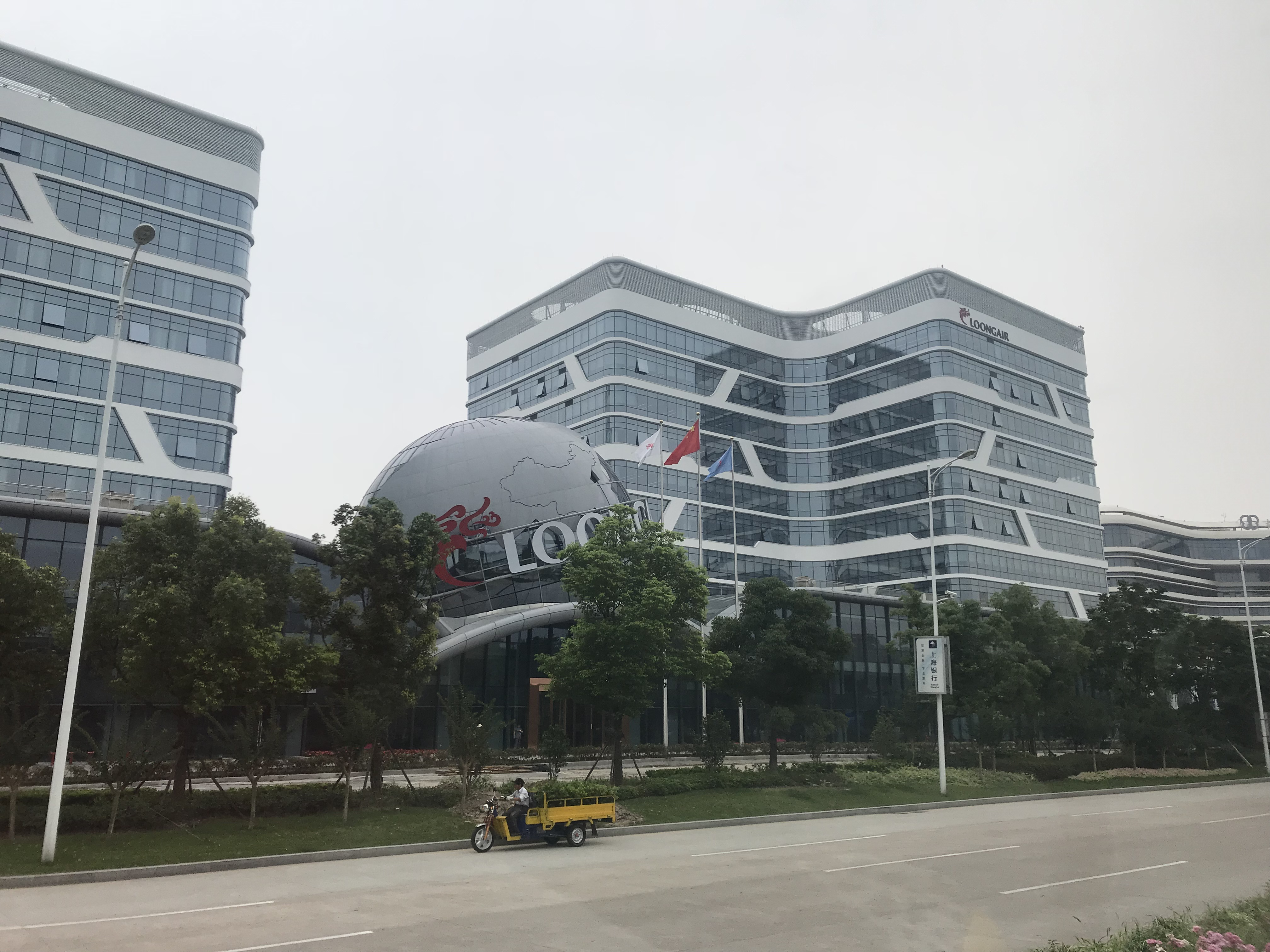 201806 Headquarter of Loongair at HGH